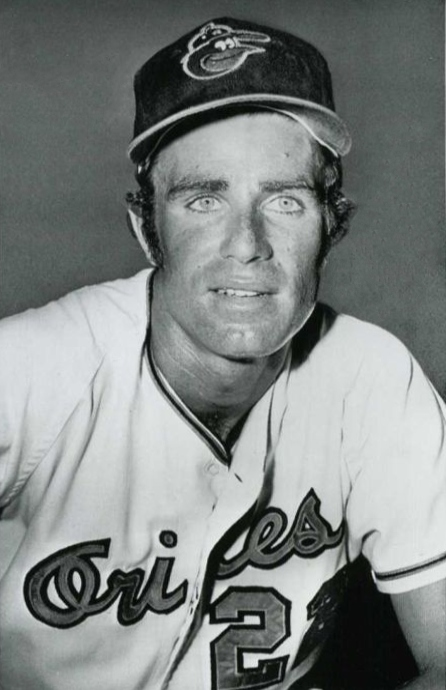 JIM PALMER 1972 All-Star Pitcher Vintage Baseball Press Wire Photo Orioles